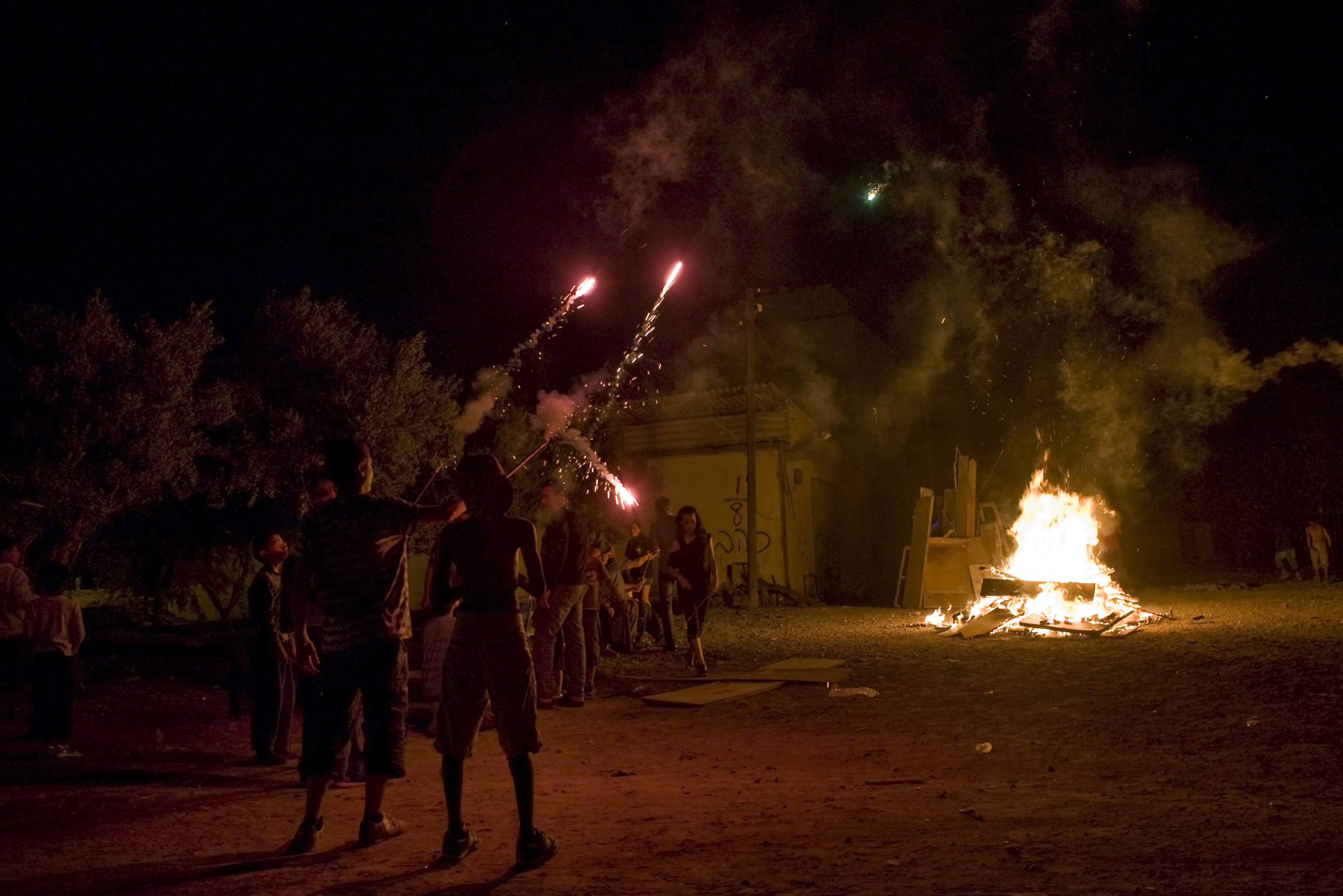 Children play with fireworks near Lag Ba'Omer bonfire, Shapira neighborhood, Tel Aviv, Israel 2011.